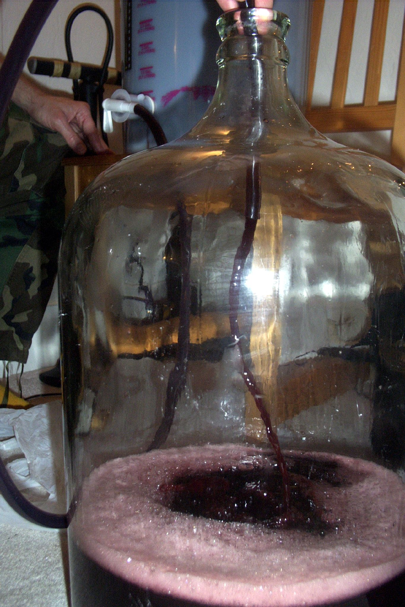 wine is allowed to splash for a little "aeration" to improve the secondary fermentation process. this is a 2006 australian shiraz.